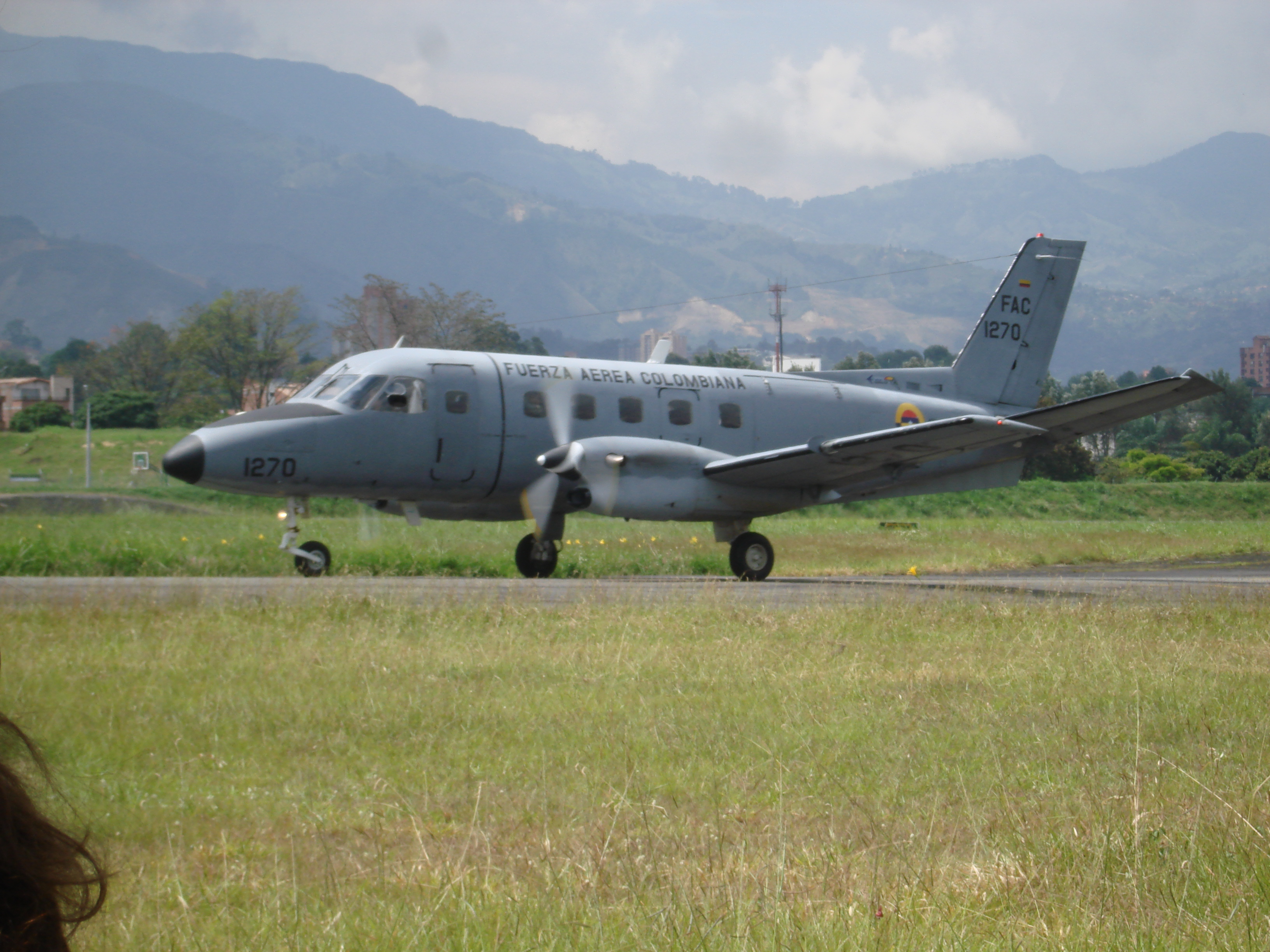 FAC1270 Embraer EMB-110 Bandeirante